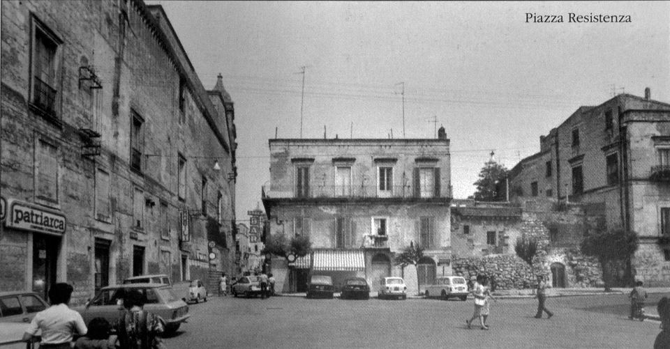 Porta Matera - Novecento